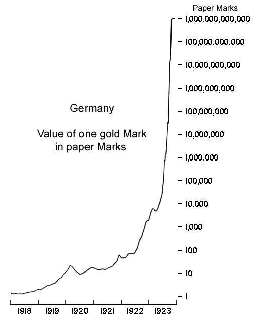 Logarithmic chart of German Hyperinflation.